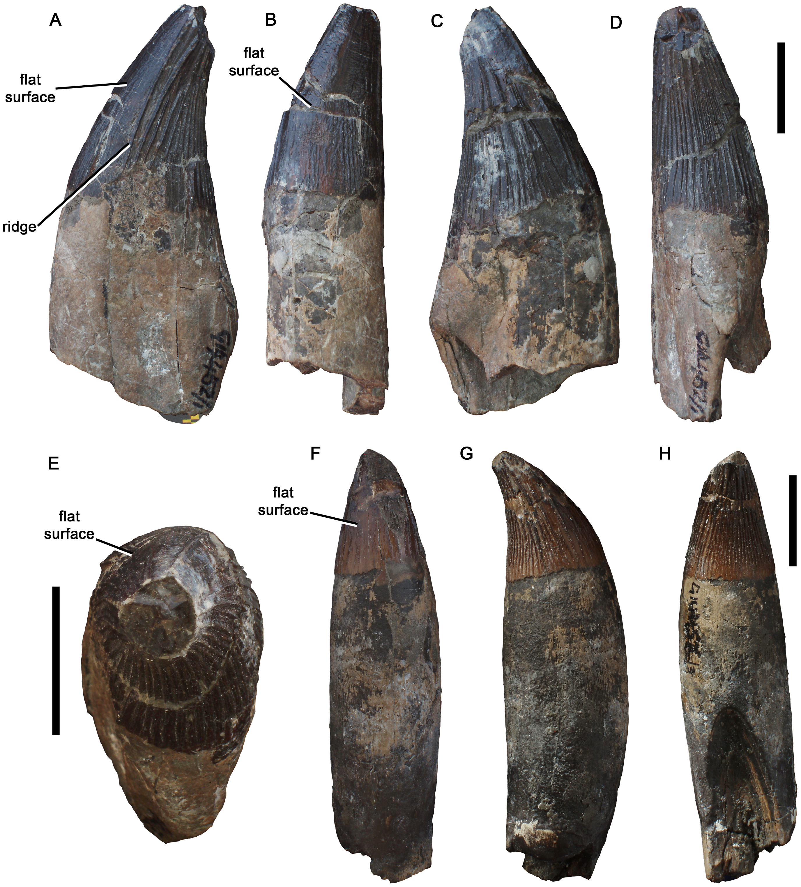 Teeth of Pliosaurus kevani n. sp. DORCM G.13,675. Large tooth in mesial or distal (A, C), labial (B), lingual (D), and apical (E) views. Small tooth in labial (F), mesial or distal (G), and lingual (H) views. Scale bars equal 20 mm.